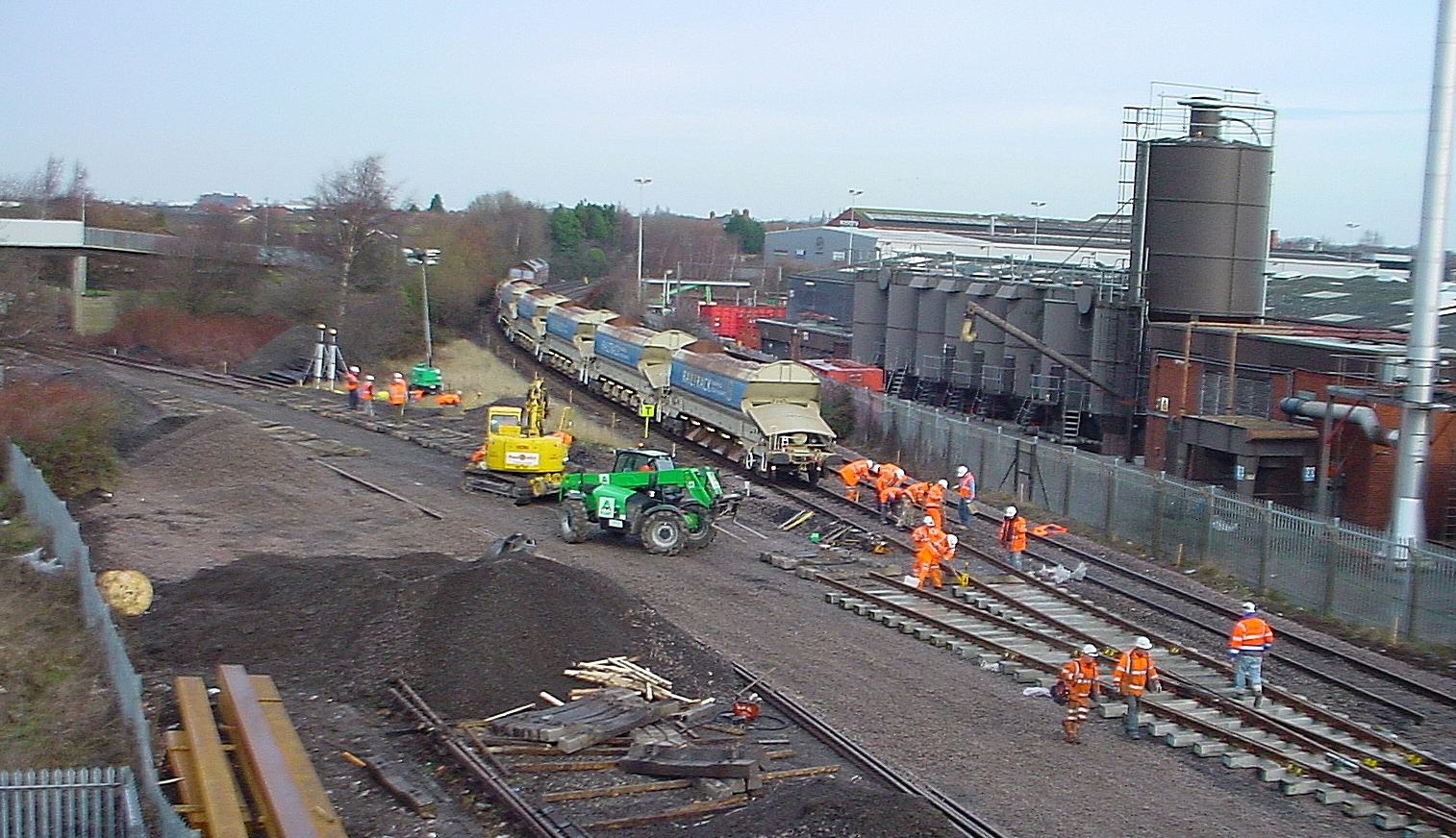 The Christmas 2007 work on Hessle Road Junction, Hull, Humberside, England. The contractors, GrantRail Ltd, are installing a double junction with the Hull Docks Line (the former Hull and Barnsley Neptune Street Branch). This allowed more freight movements to the eastern docks; the partial re-doubling of the Hull Docks Line was completed during 2008. This junction was previously rationalised in 1984.